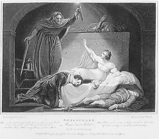 Act V, Scene 3: Juliet awakes, and finds Romeo dead